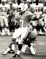 Houston Oilers kicker Tony Zendejas attempting a field goal during a 1985 home game against the Miami Dolphins